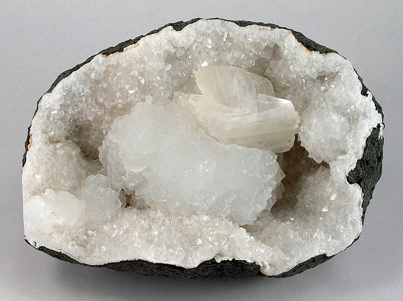 Goosecreekite, Heulandite-Ca, Quartz Locality: Jalgaon District, Maharashtra, India (Locality at ) Size: cabinet, 13.1 x 8.5 x 8.1 cm Goosecreekite with Heulandite on Quartz Nestled in a basaltic vug is a sparkly crystal druse of colorless quartz ,upon which was deposited some incredibly bright and sparkly crystal clusters of the rare species Goosecreekite . Atop the Goosecreekite sits two pearlescent, translucent crystals of heulandite, the largest of which measures 4 cm across and is also doubly terminated.